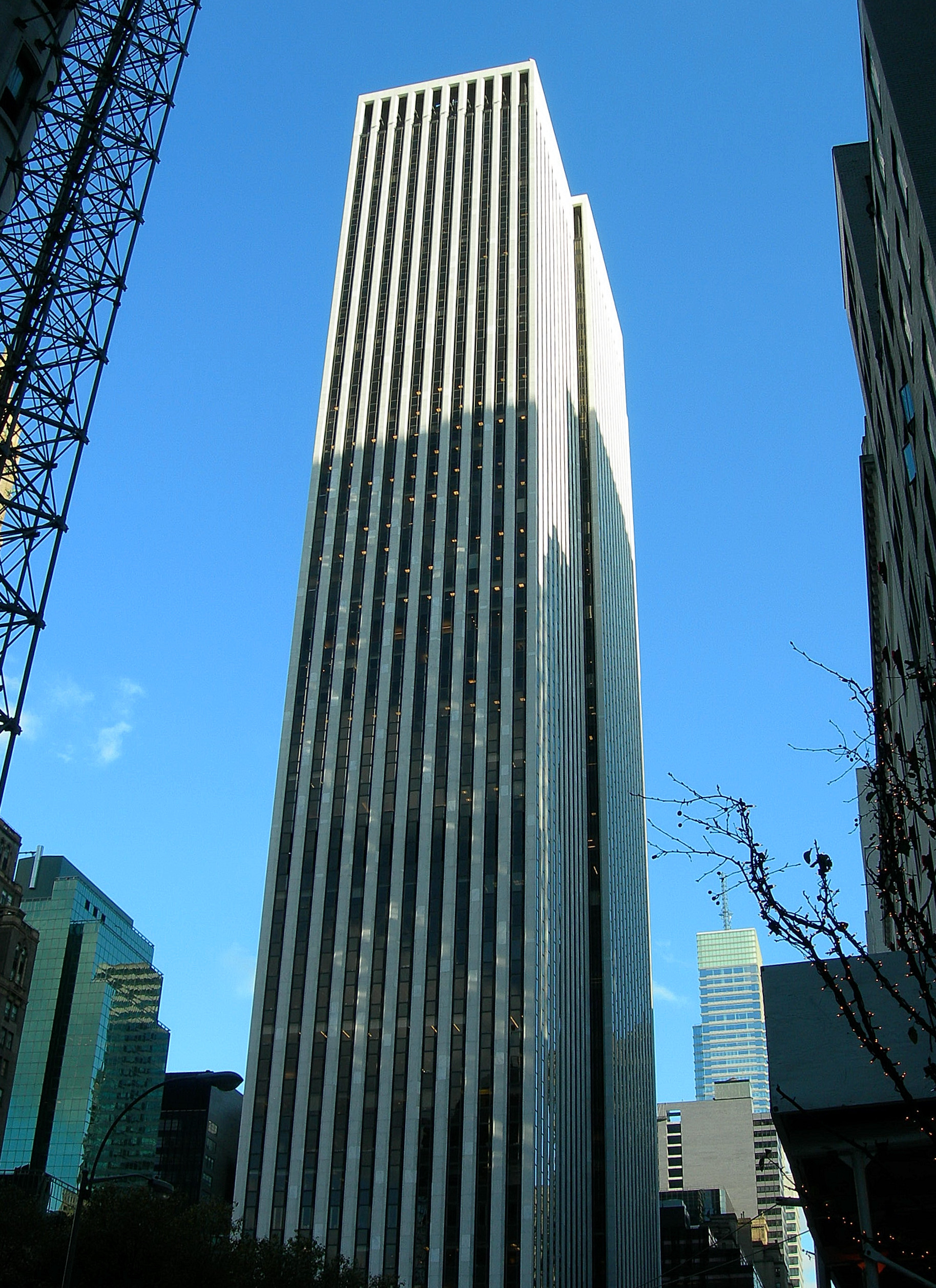 General Motors Building, New York City, NY. Designed by Edward Durell Stone, 1964.